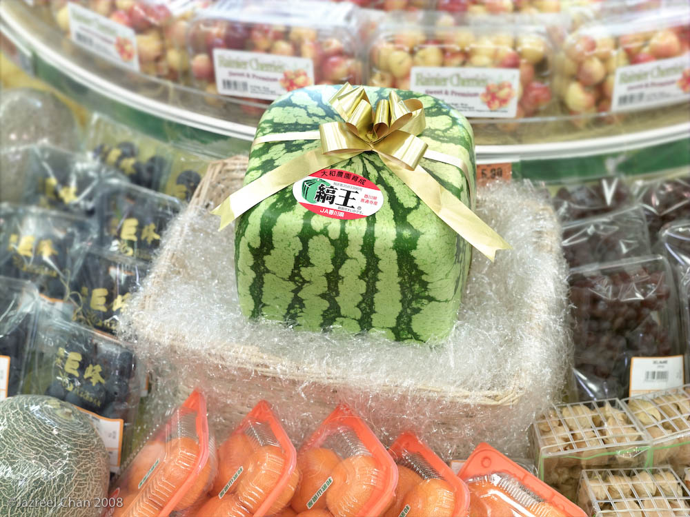 Square or cube-shaped watermelon available for sale in Japan. (Cube Watermelon.)